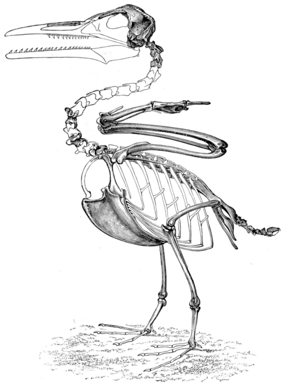 Ichthyornis victor skeleton restoration based on the holotype YPM 1452 and referred specimens.